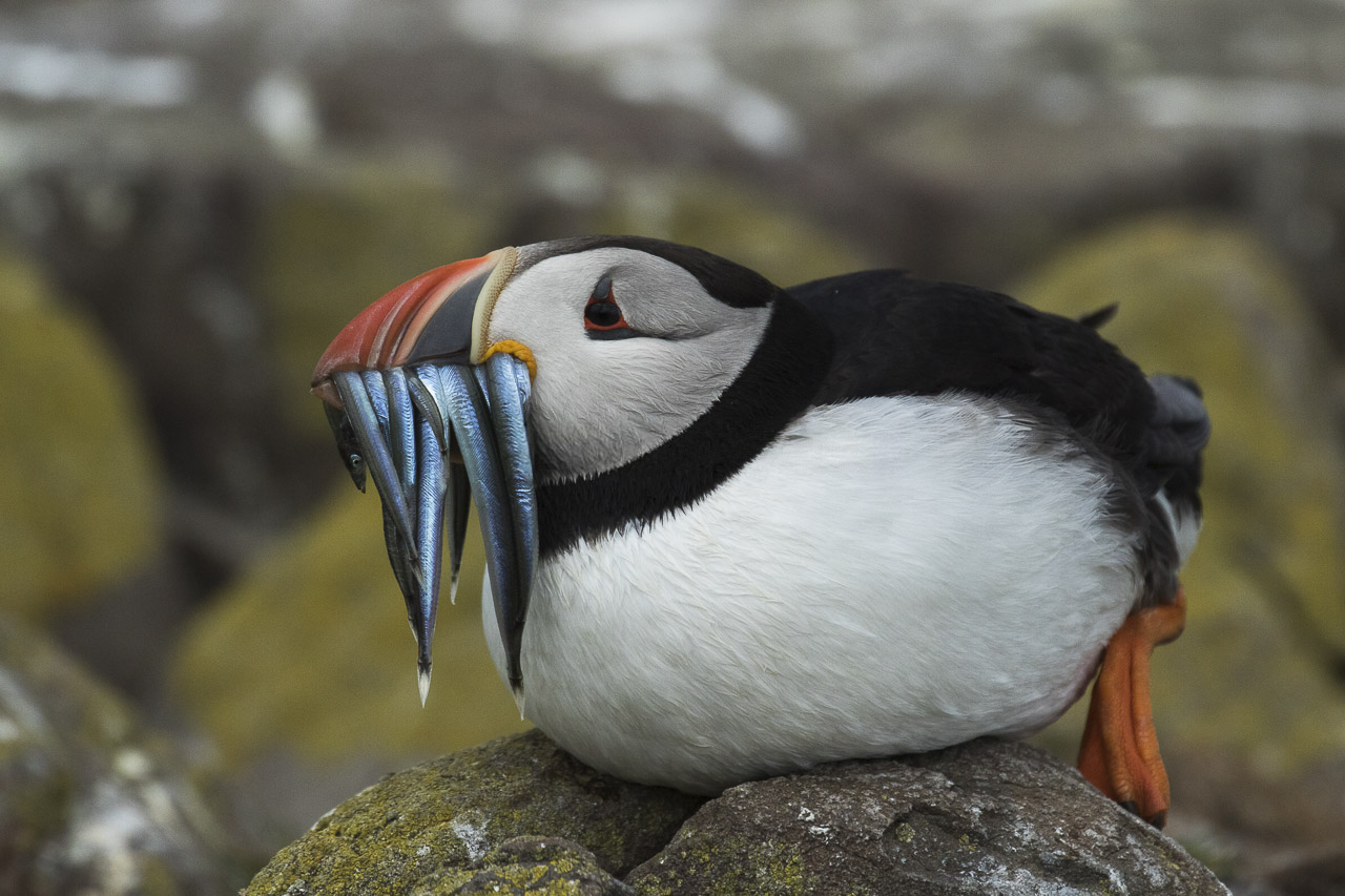 Atlantic Puffin - Farne Is - FJ0A4924